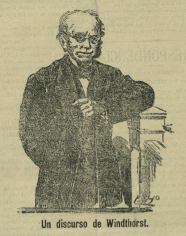 Ludwig Windthorst